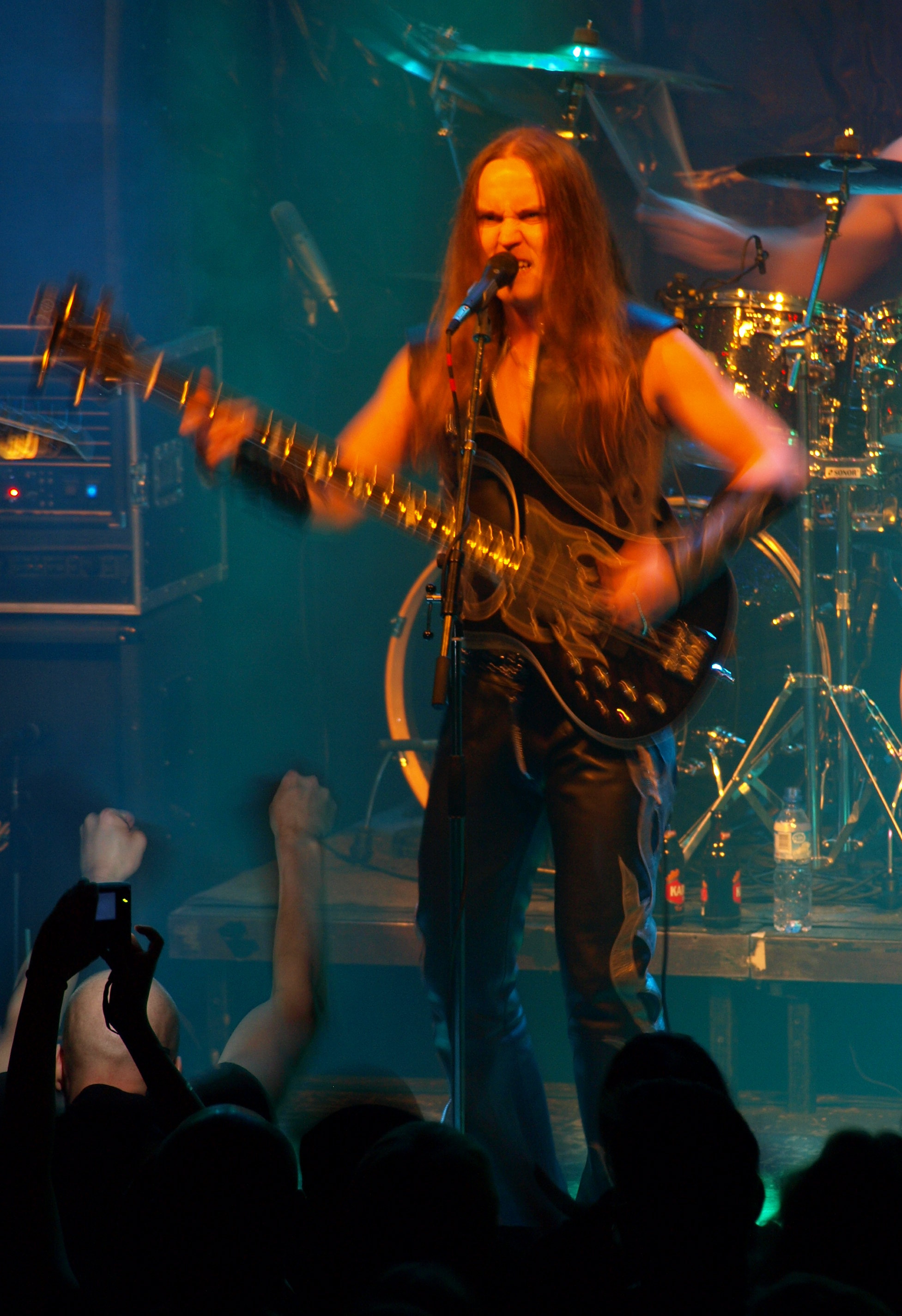 Finnish heavy metal band Teräsbetoni live